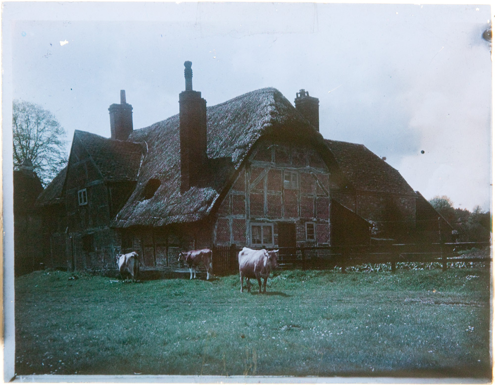 Discovered in a box of glass negatives, this I believe dates from the very early part of the 20th Century, probably no later than around 1920. It is a sandwich of two thin glass plates, measuring c. 4x3". It has a very distinctive colour 'grid' (see the detailed view) which has now been identified as distinctive to the Paget colour process. (as opposed to other early colour processes such as Autochrome, Dufaycolor, Finlay Colour process etc). See adjacent images for crop and detail of grid. All information and comments would be greatly appreciated.